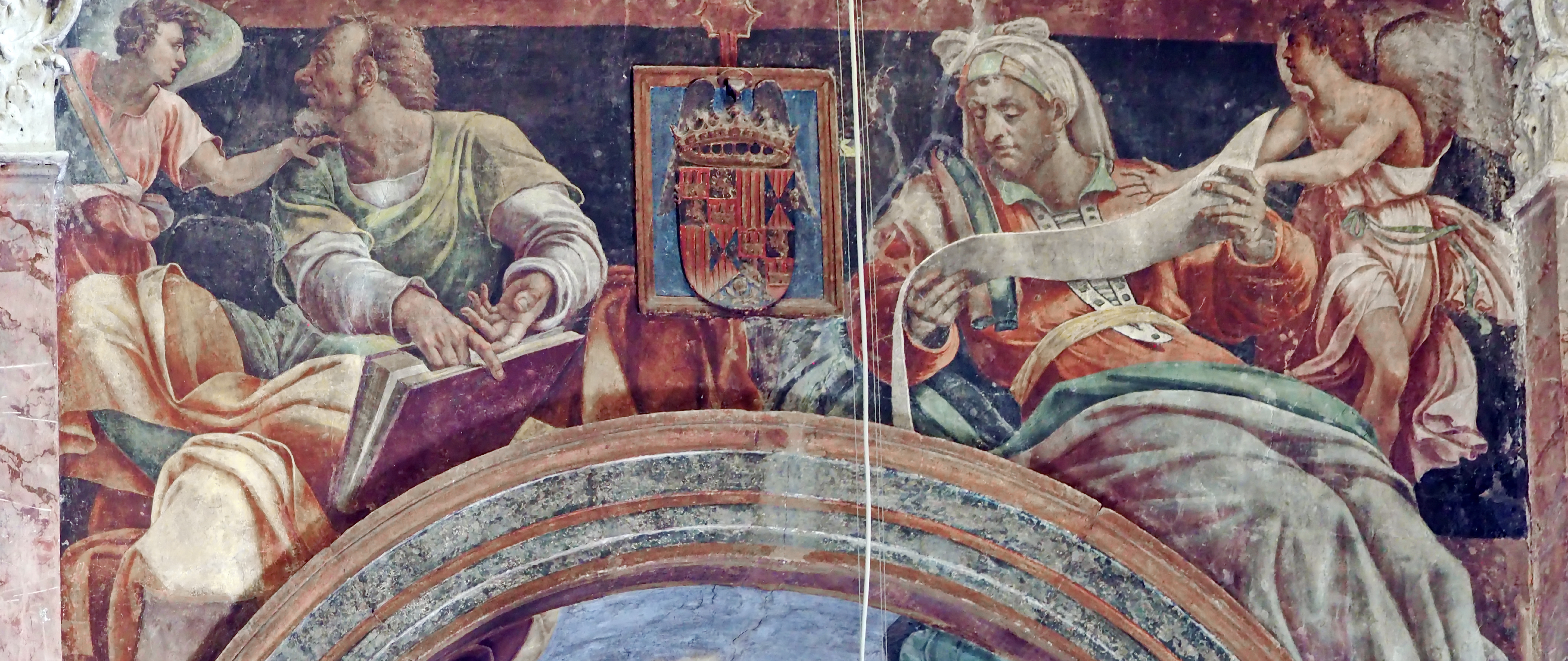 San Pietro in Montorio (Rome); Cappella Borgherini; St. Matthew and Isaia